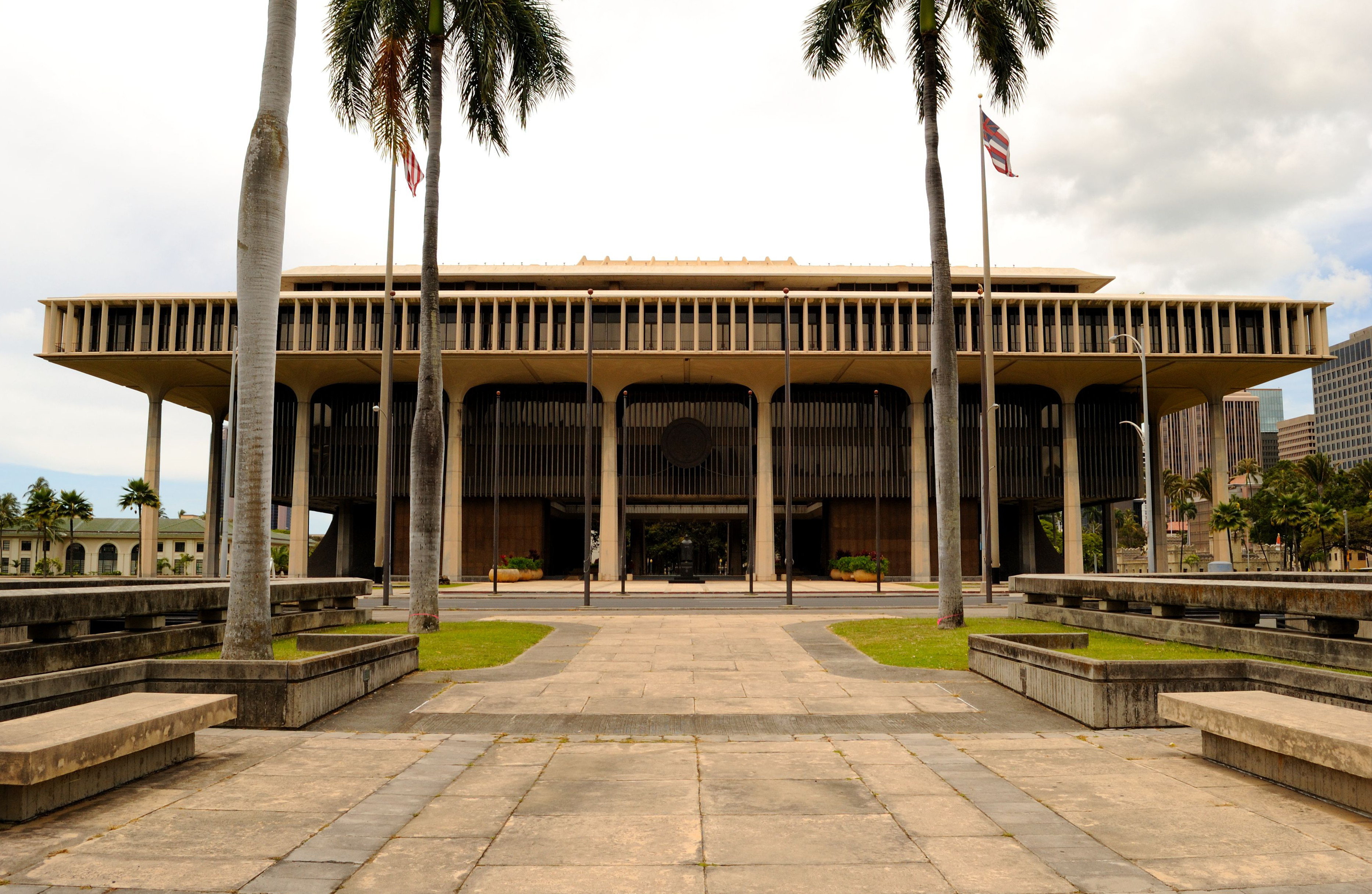 View from across Beretania Street